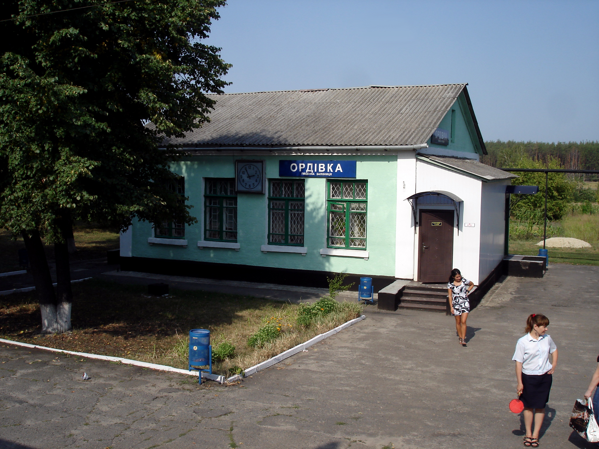 Ordivka train station. 2012.